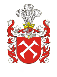 Herb Klamry Clan File:POL COA Klamry.svg is a vector version of this file. It should be used in place of this raster image when not inferior. File:Herb Klamry.PNG File:POL COA Klamry.svg For more information, see Help:SVG. In other languages